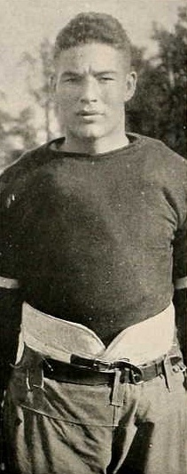 Photograph of Russ Hathaway